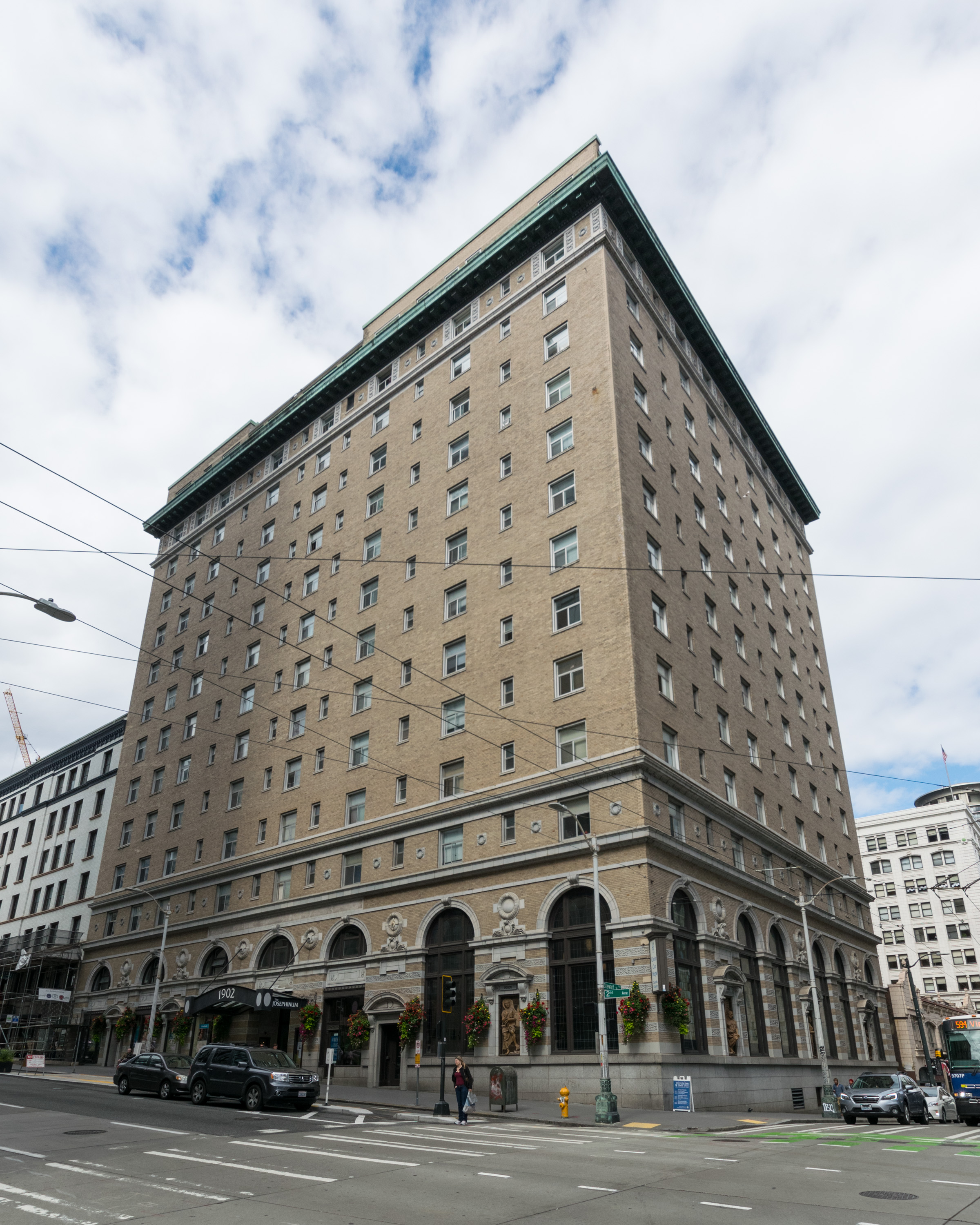 The Josephinum apartment building in Seattle, formerly the New Washington Hotel.